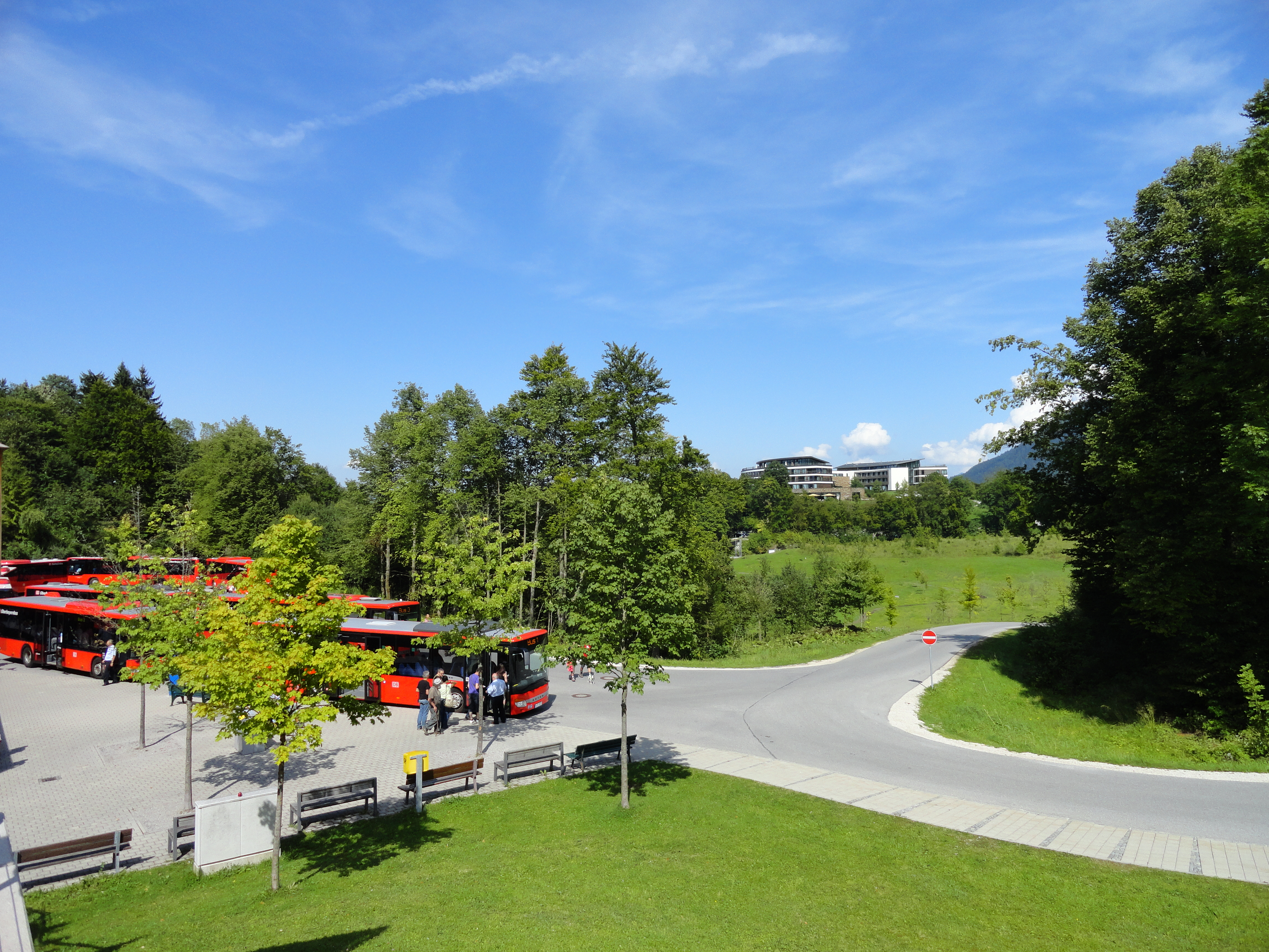 Former area Platterhof Garage